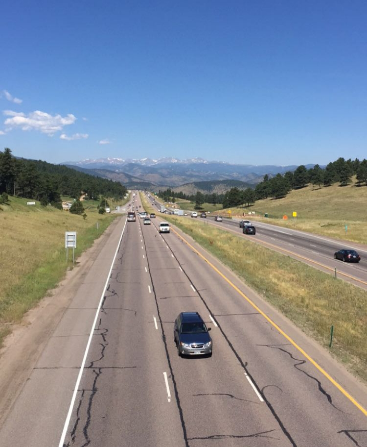 View of Interstate 70 in Colorado at the eastern end of U.S. 40 in Colorado. At exit 254 on Interstate 70.